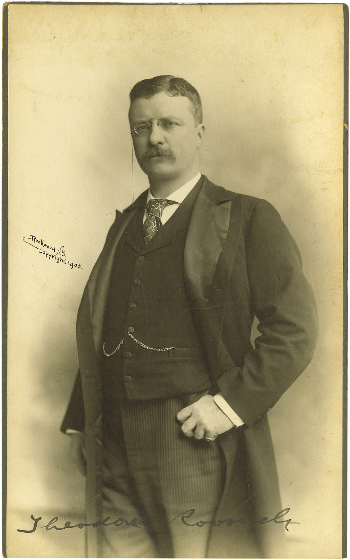 Signed photograph of Theodore Roosevelt